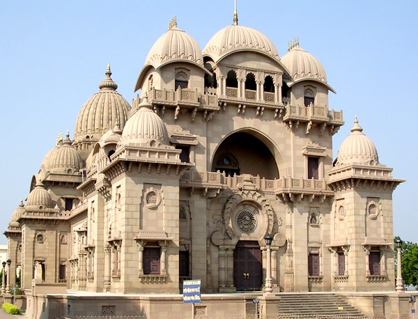 Photo of the Belur Math